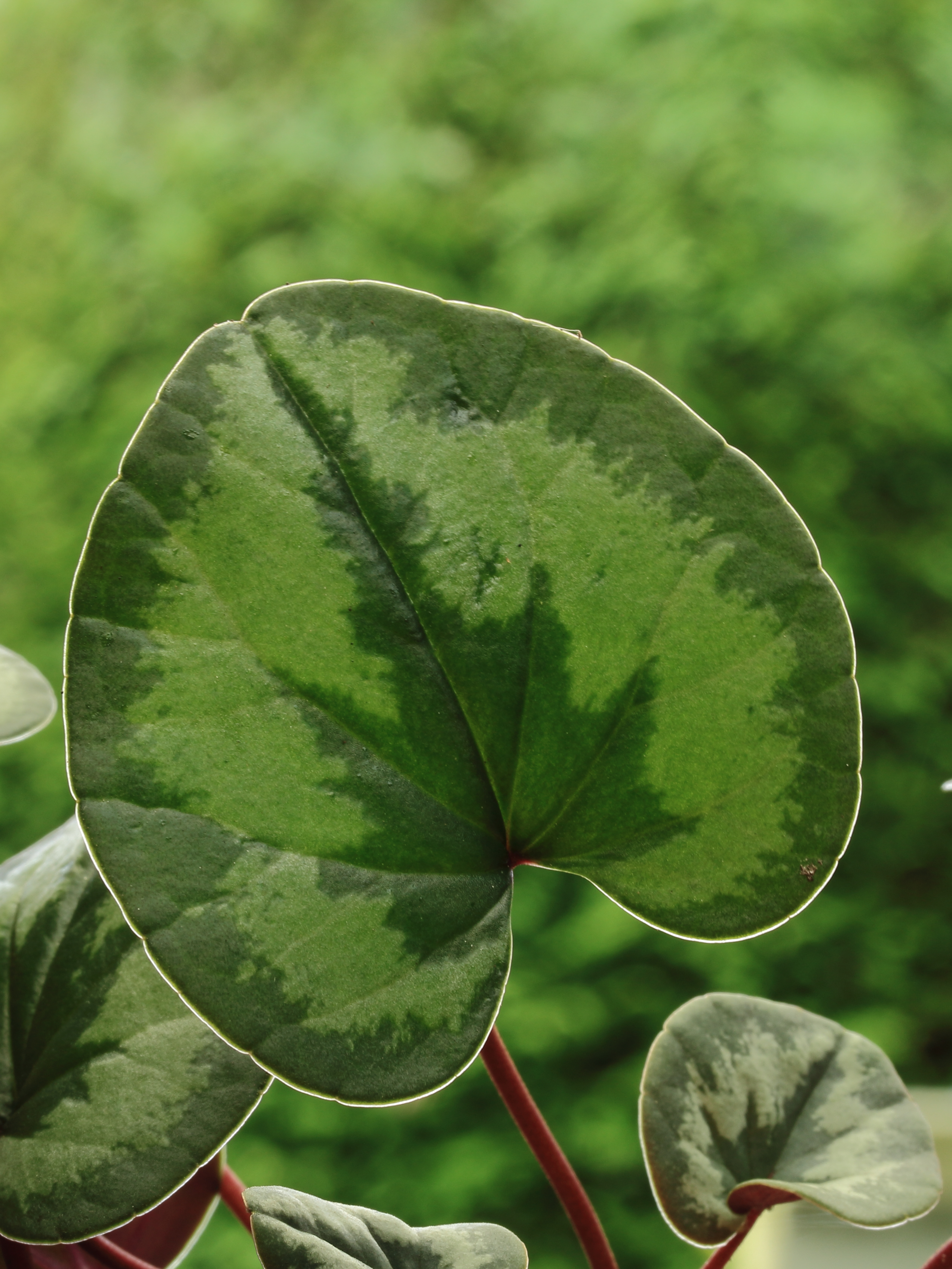 Cyclamen coum leaf.